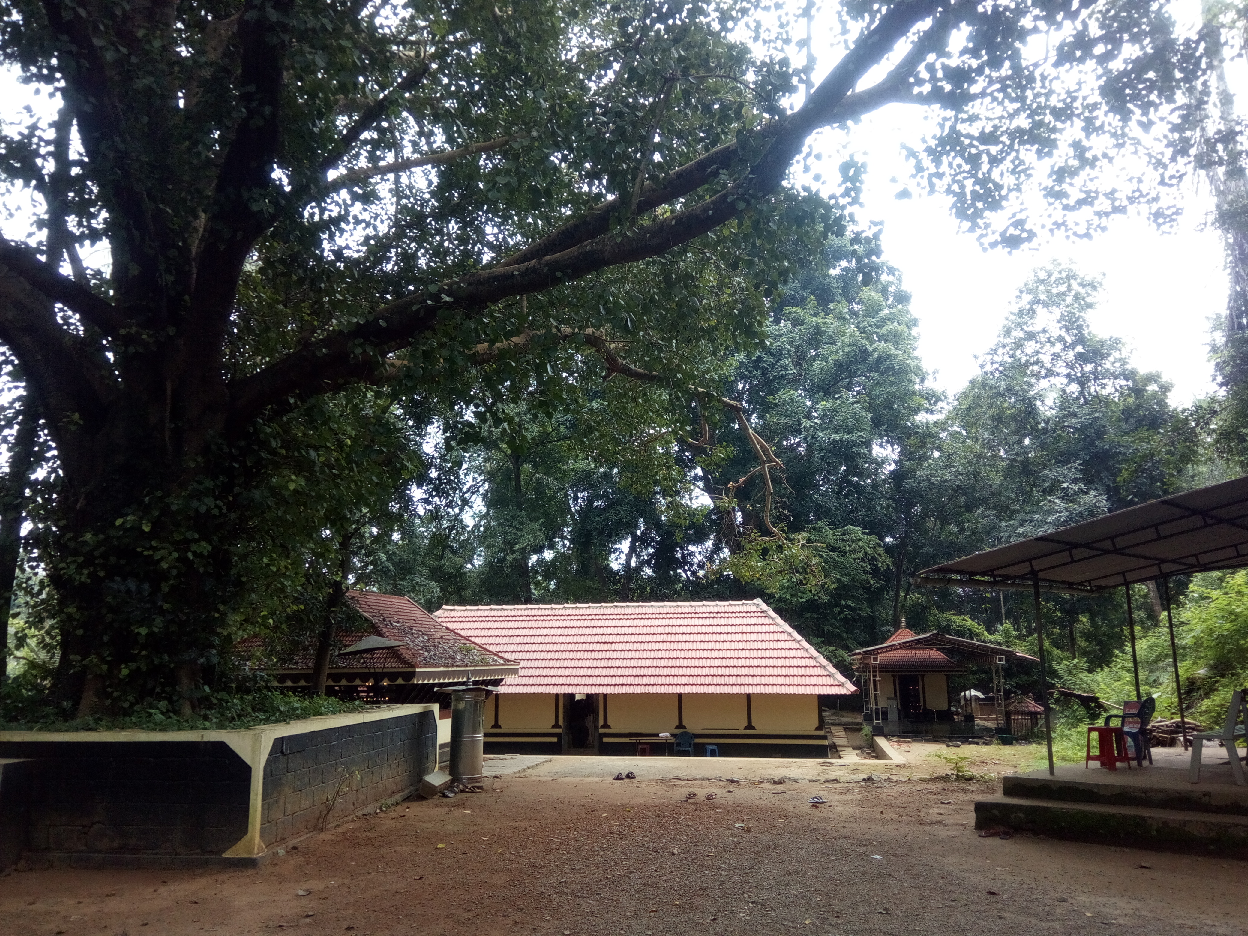 Chemmanthitta kavu is an famous vanadurga temple in karulai region of malappuram district. It is situated in the shore of karimpuzha